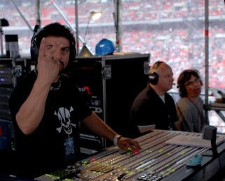 Dick Carruthers at the mixing console during a stadium gig